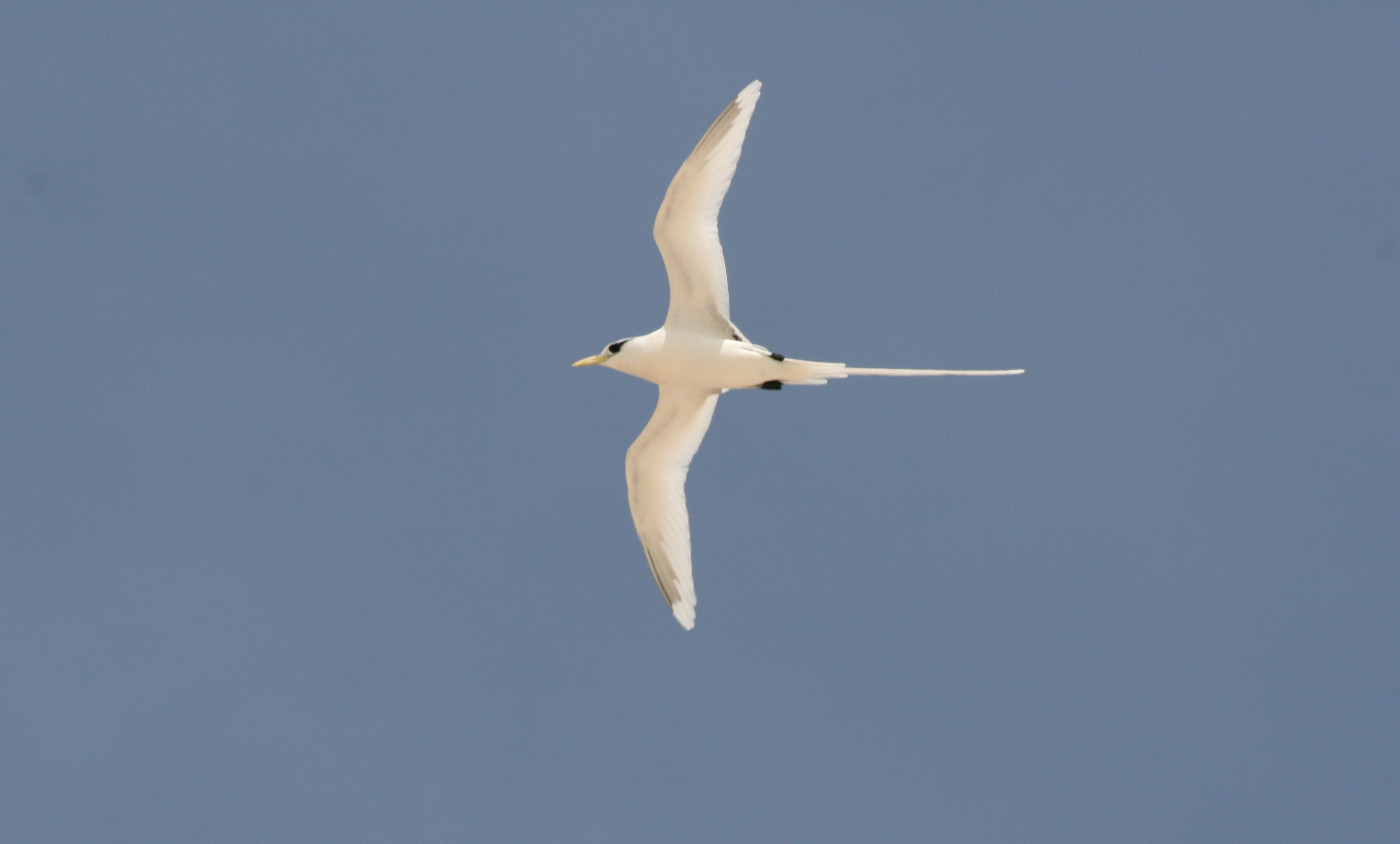 Phaethon lepturus ("White-tailed Tropicbird") in Cousin Island, Seychelles